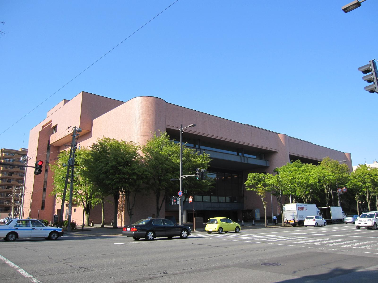 Aomori civic cultual hall